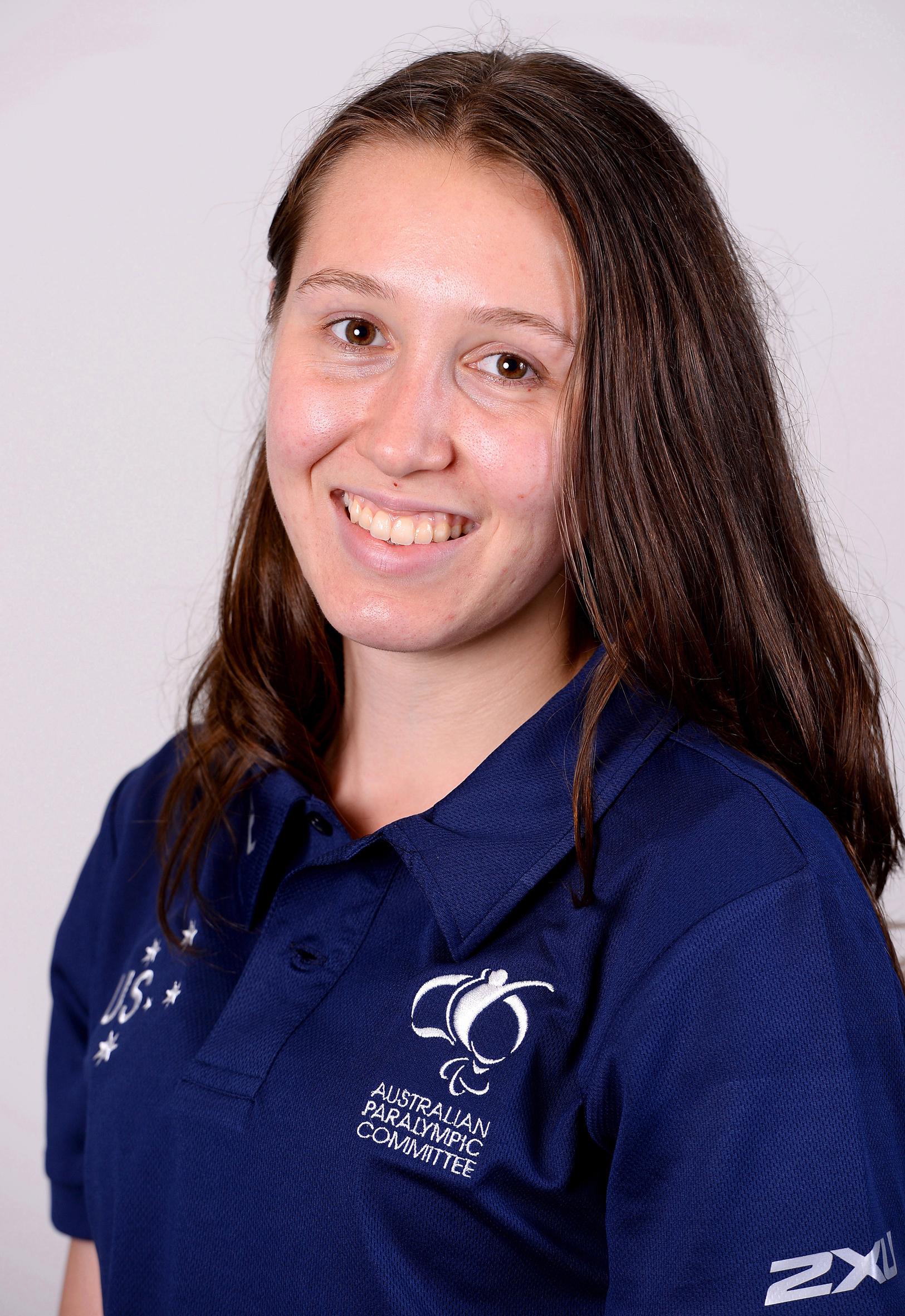 Portrait photograph of Brianna Coop taken at team processing session for shadow members of 2016 Australian Paralympic team